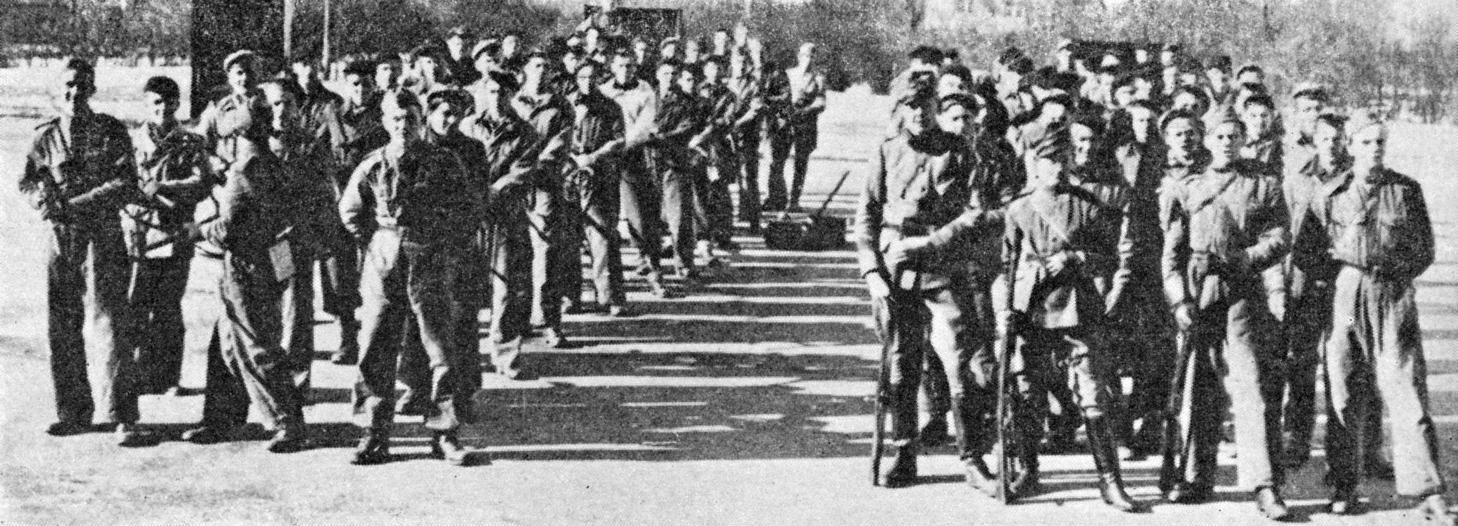 The first Swedish Home guard company in Lund, 1940.